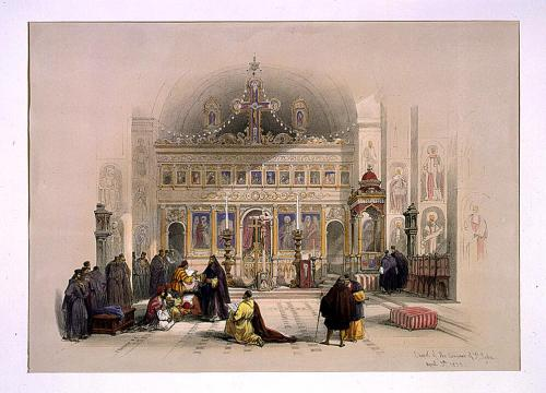 Chapel of the Convent of St Saba